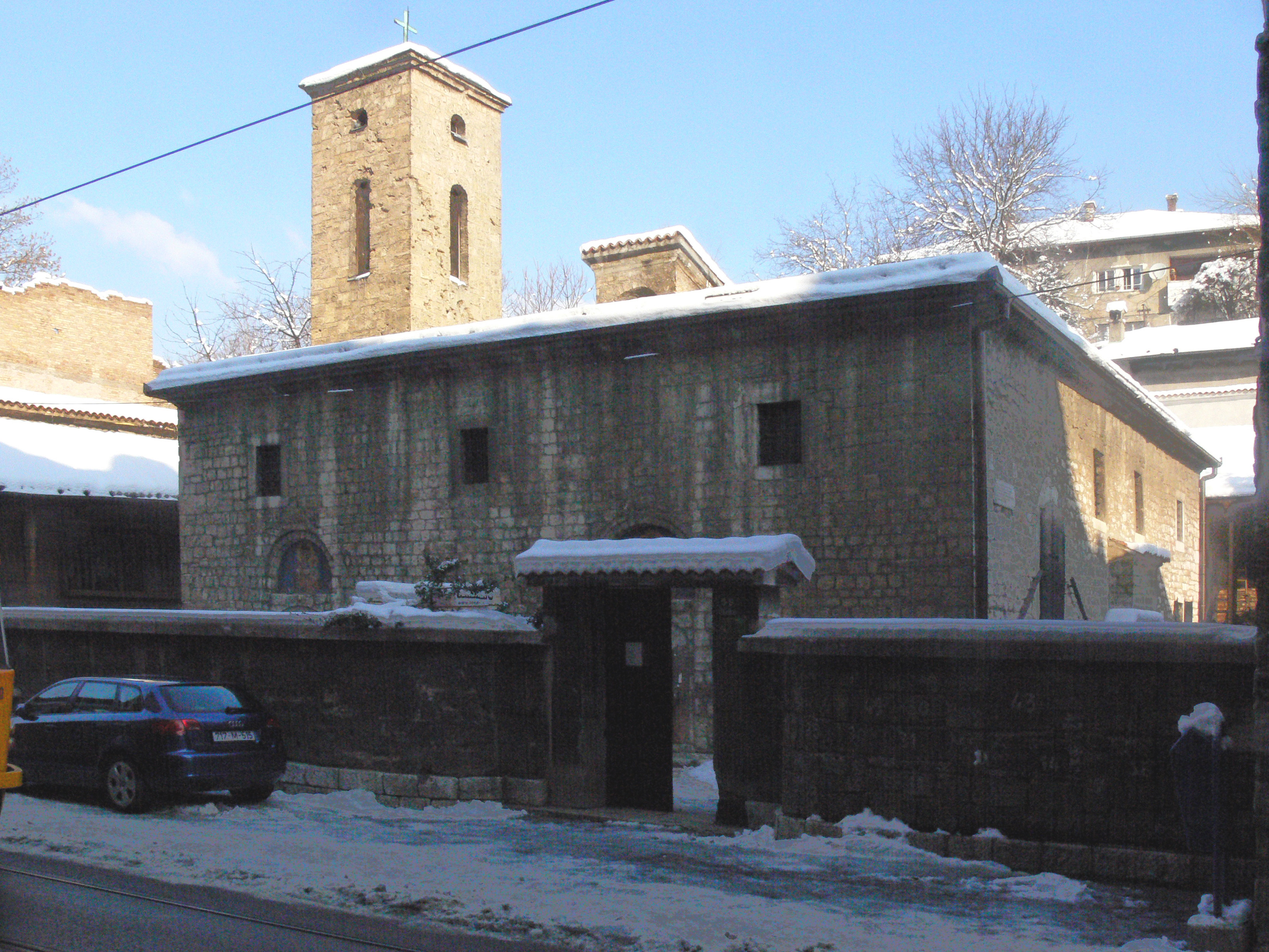 The old arthodox church in Sarajevo. The oldest sacral building in Sarajevo.